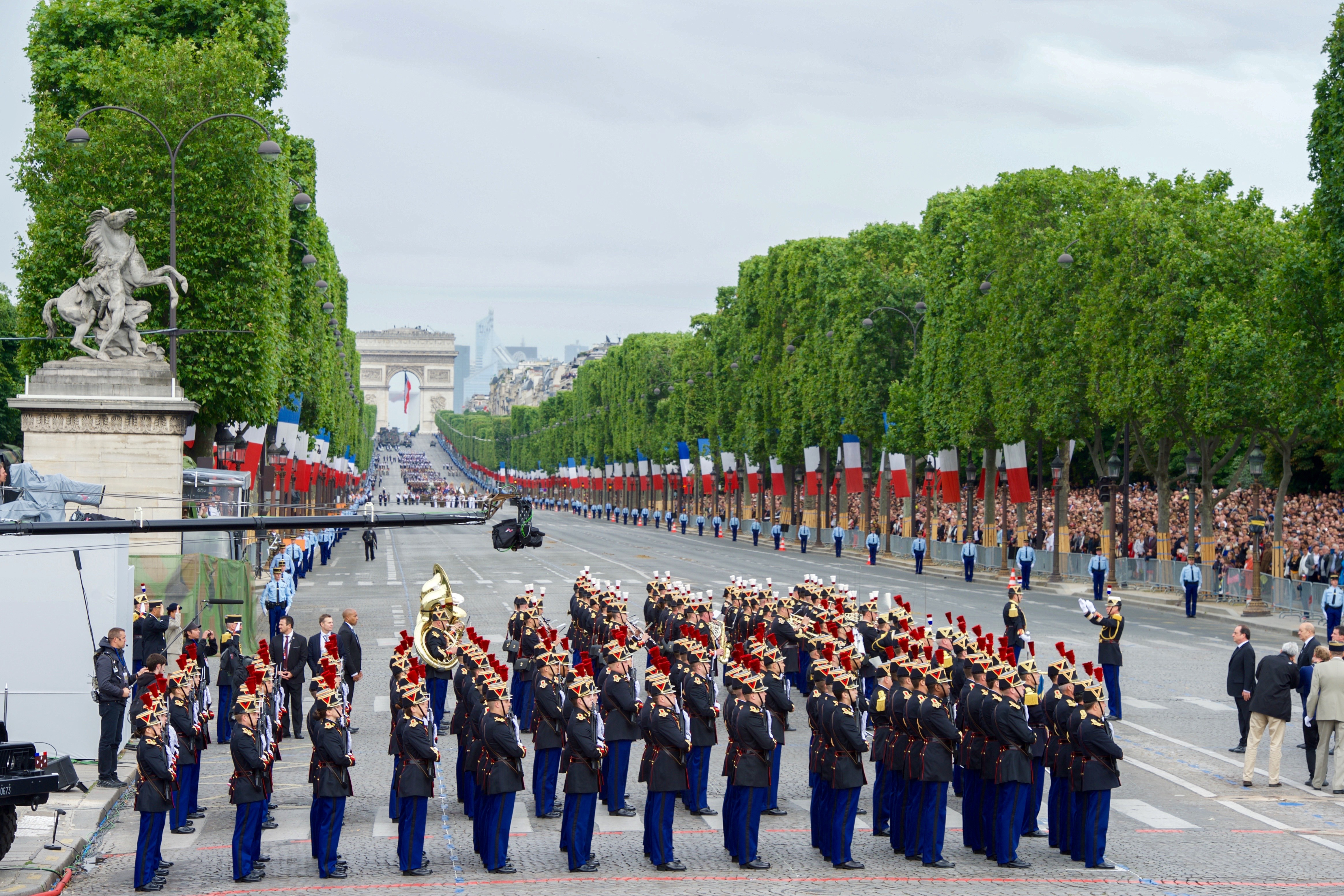 French President Francois Hollande stands at the base of the Champs-Élysées in Paris, France, on July 14, 2016, as he listens to a band play La Marseillaise - the French national anthem - before the start of a Bastille Day parade that would pass a reviewing stand in the Place de la Concorde. [State Department photo/ Public Domain]